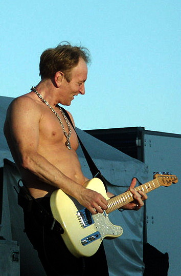 Taken by Weatherman90 at North Dakota State Fair Def Leppard Concert, 2007-07-26, adapted from Image:CollenCampbell.JPG